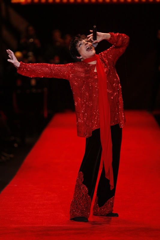 Liza Minnelli at The Heart Truth Fashion Show 2008